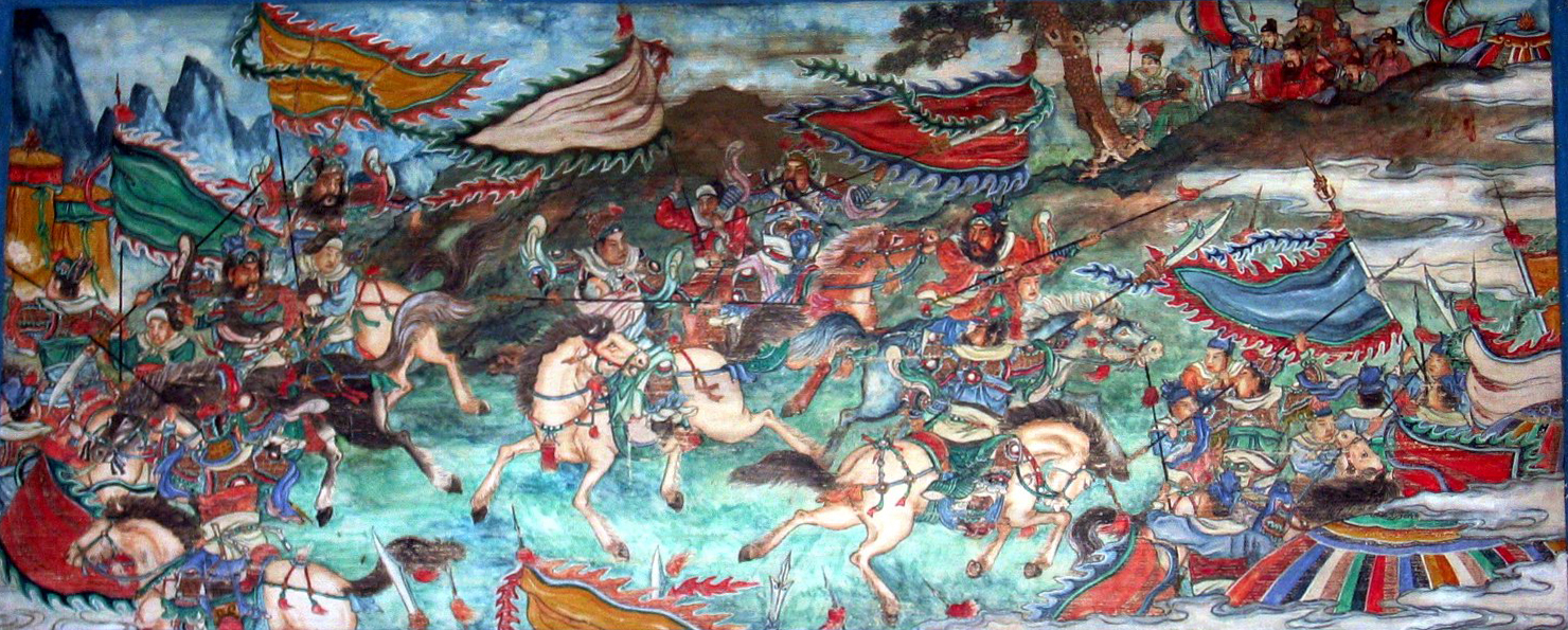 Photograph of the painting "Zhao Yun's Fight at Changban" inside the Long Corridor on the grounds of the Summer Palace in Beijing, China. Photograph taken on April 17, 2005 by Rolf Müller.